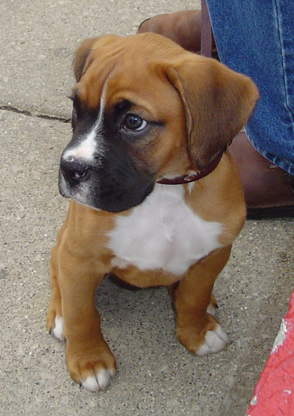 Boxers - BoxersPuppyCash.jpg - imagem sob licença GNU, retirada da Wikipedia inglesa em pt::en:Image:BoxerPuppyCash.jpg